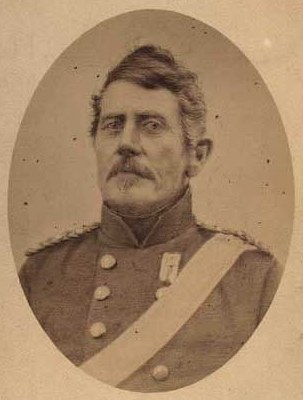 Hans Adolph Juel (1789-1874), Danish Major General and estate owner